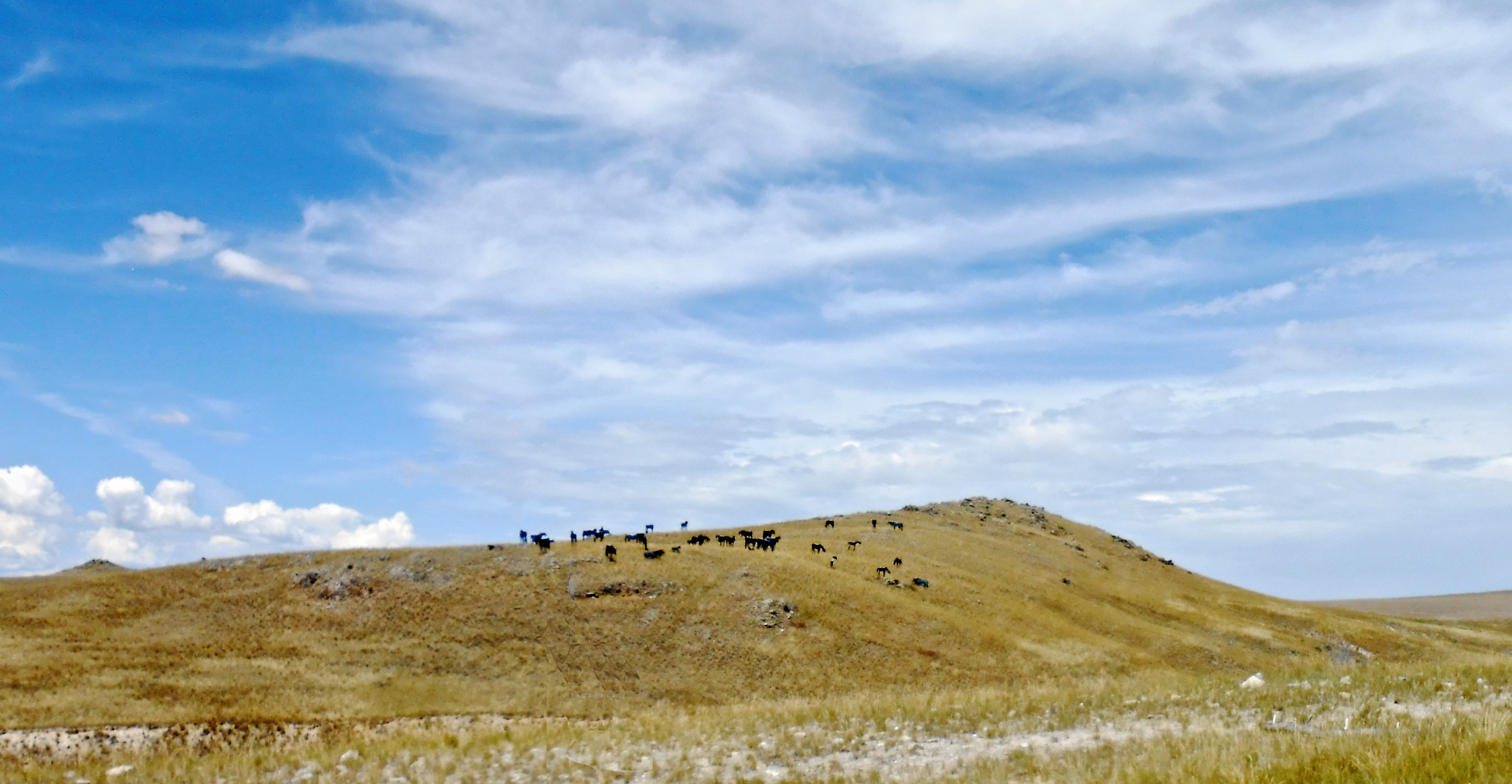 Landscape panorama that includes the "bleu horses" installation by Jim Dolan, hilltop vista near Three Forks, Montana